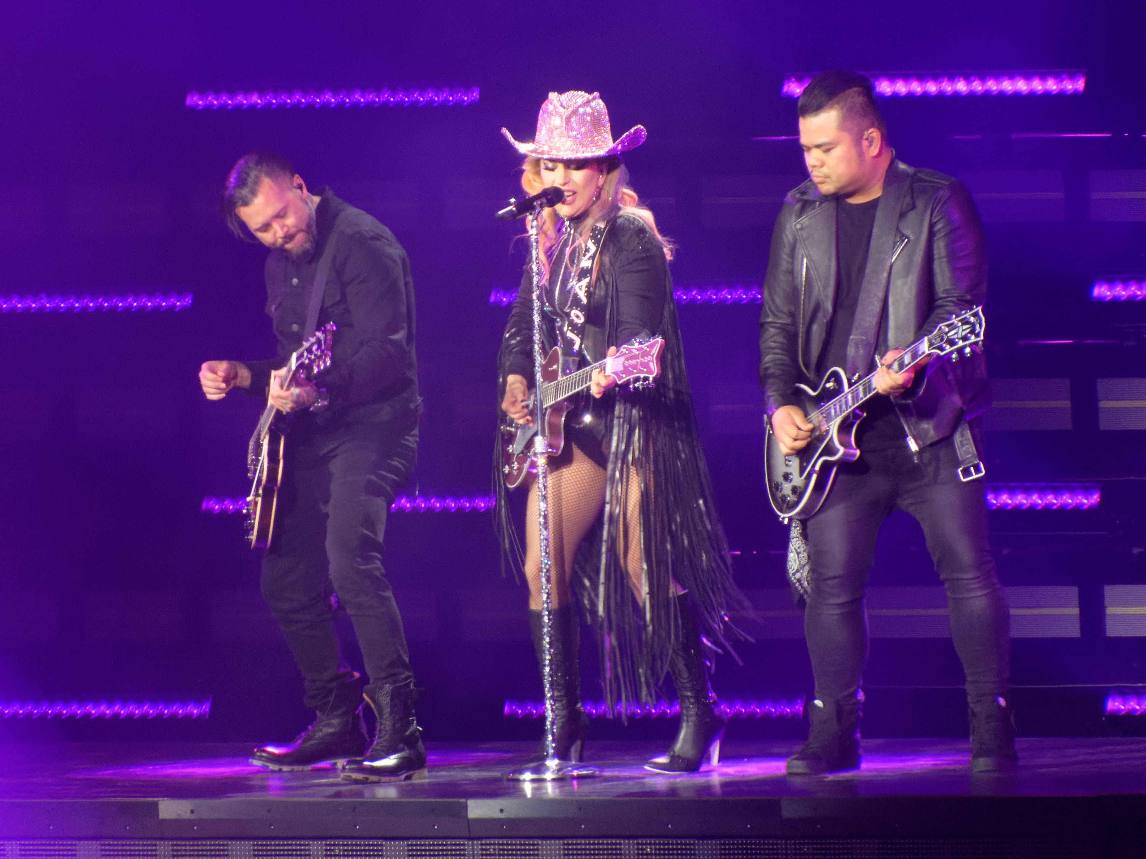 Lady Gaga performing "A-Yo" during the Joanne World Tour in Tacoma.